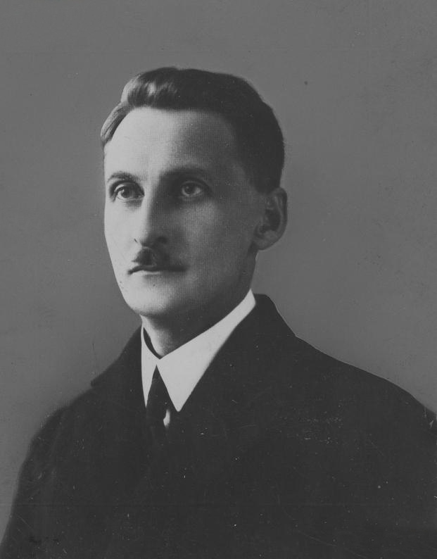 Polish writer of horror fiction, sometimes called "the Polish Poe".